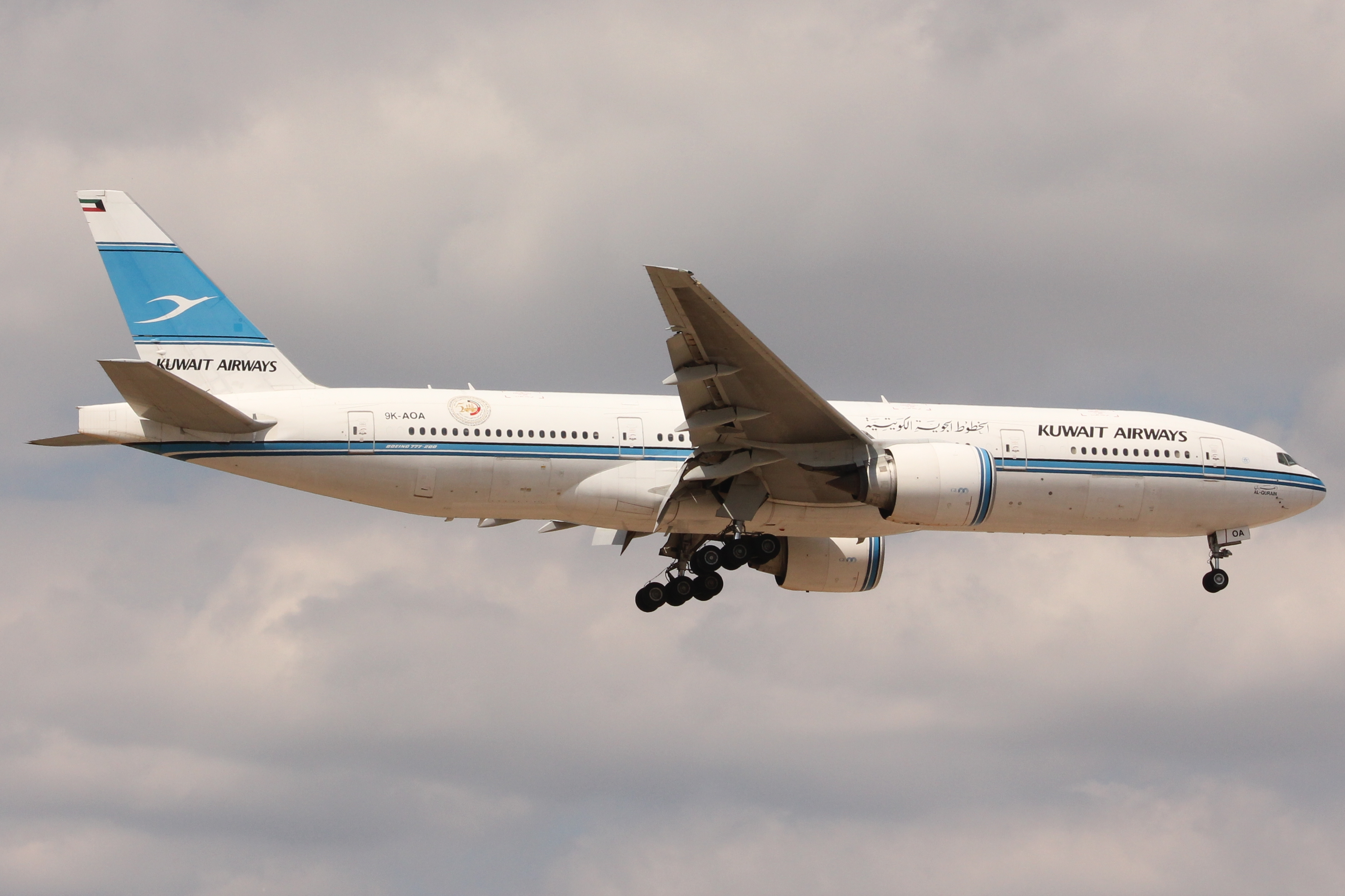 Kuwait Airways 777-200 approaches Frankfurt intl. Airport.